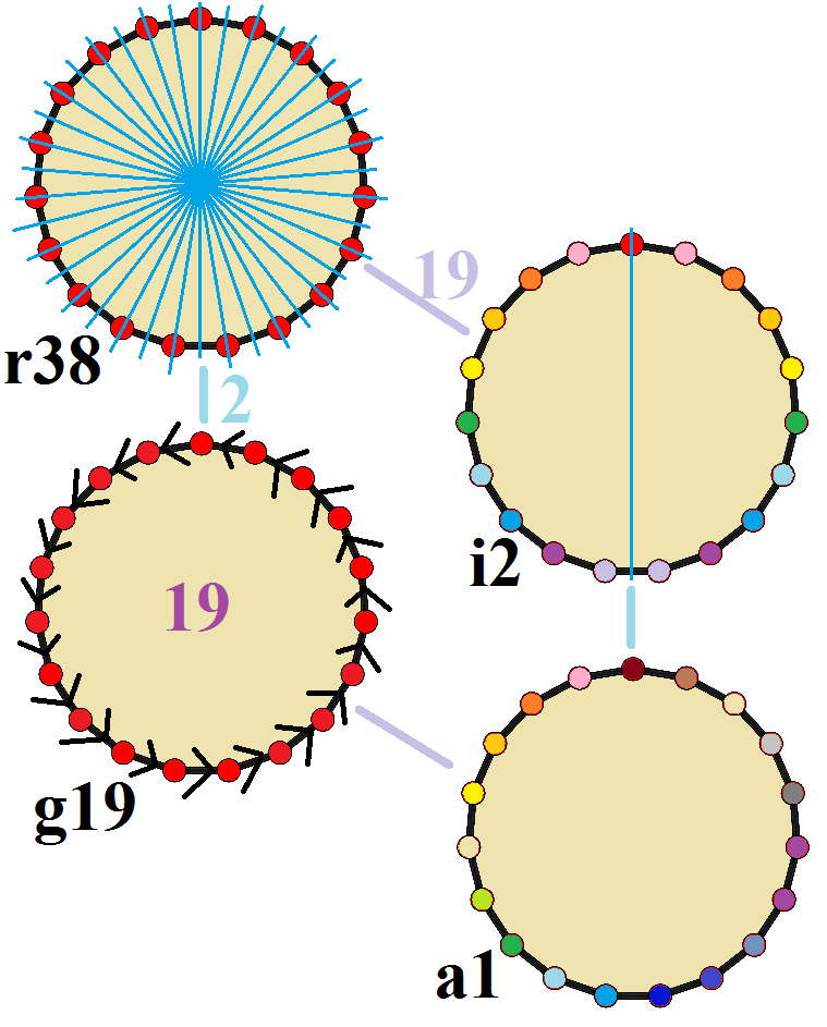 enneadecagon symmetry